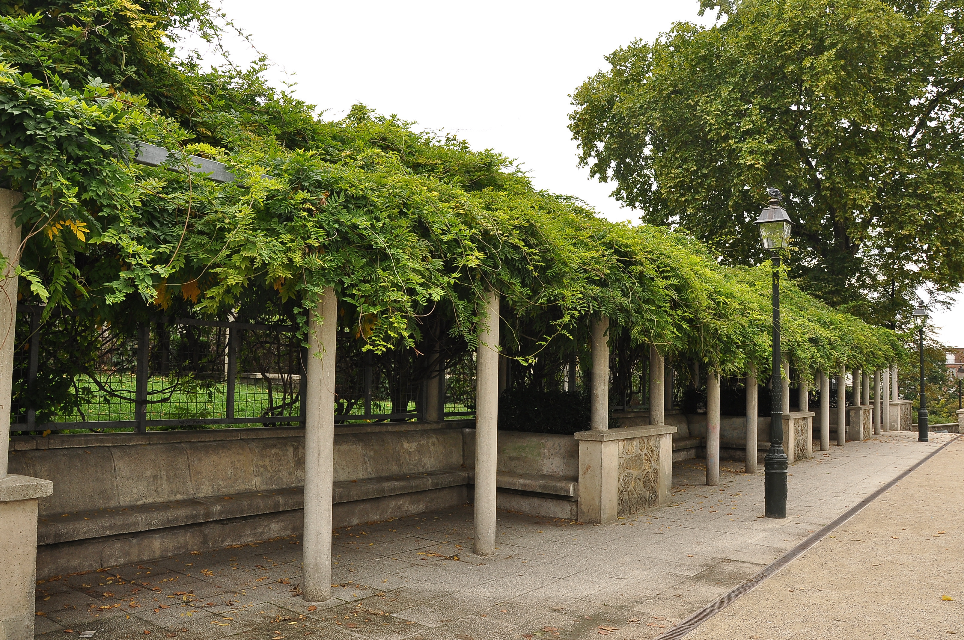 Garden of Turlure in Montmartre, 18th arrondissement of Paris in France.